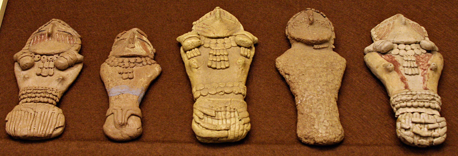 Image of some of the Pilling Figurines. Unfired clay figurines found in a side canyon of Range Creek Canyon in Utah by Clarence Pilling. From the Fremont culture of Native Americans. The figurines are currently on display at the College of Eastern Utah Prehistoric Museum (Price, Utah) where this picture was taken.